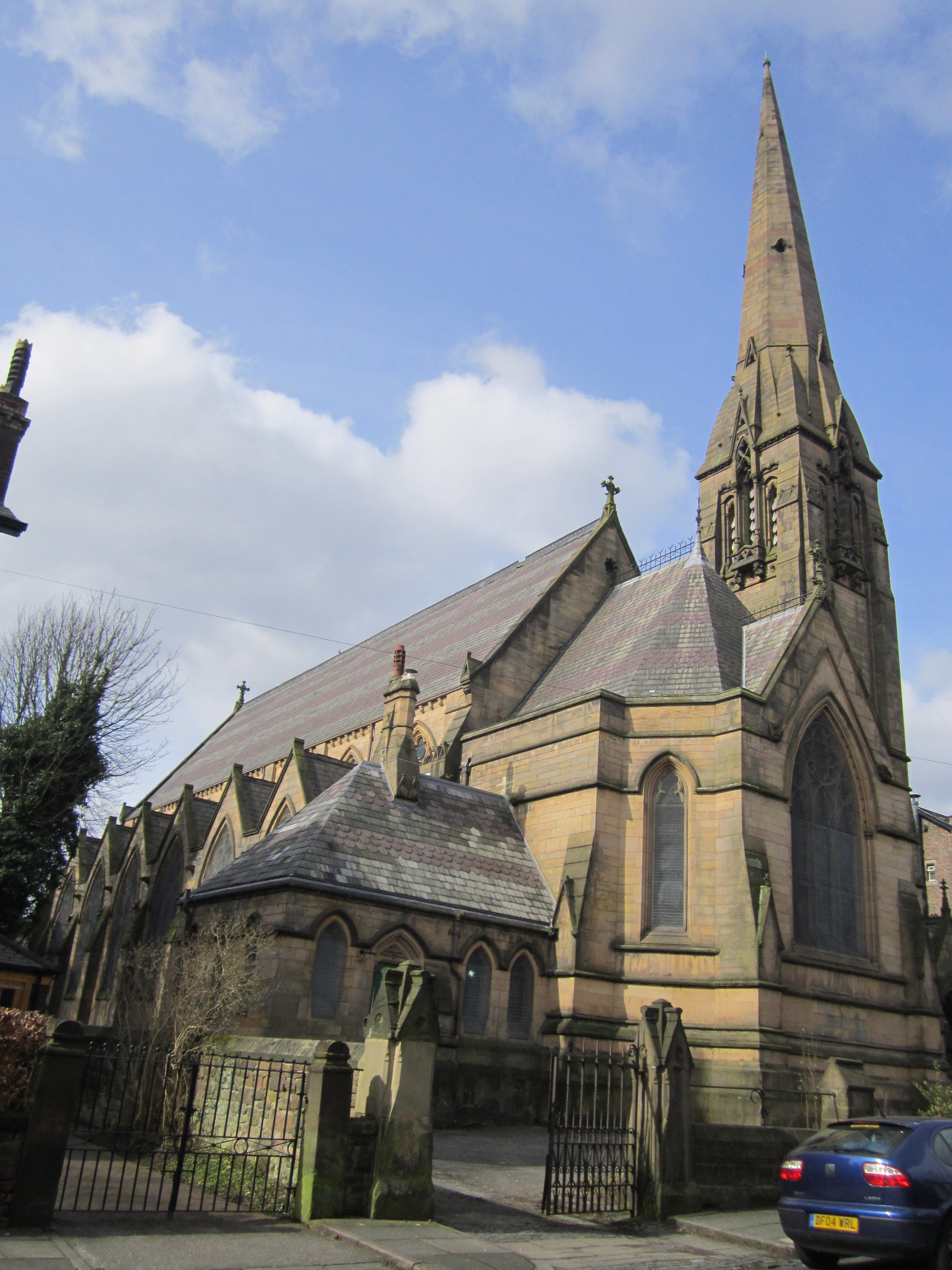 Christ Church parish church, Linnet Lane, Toxteth Park, Liverpool, England, seen from the east